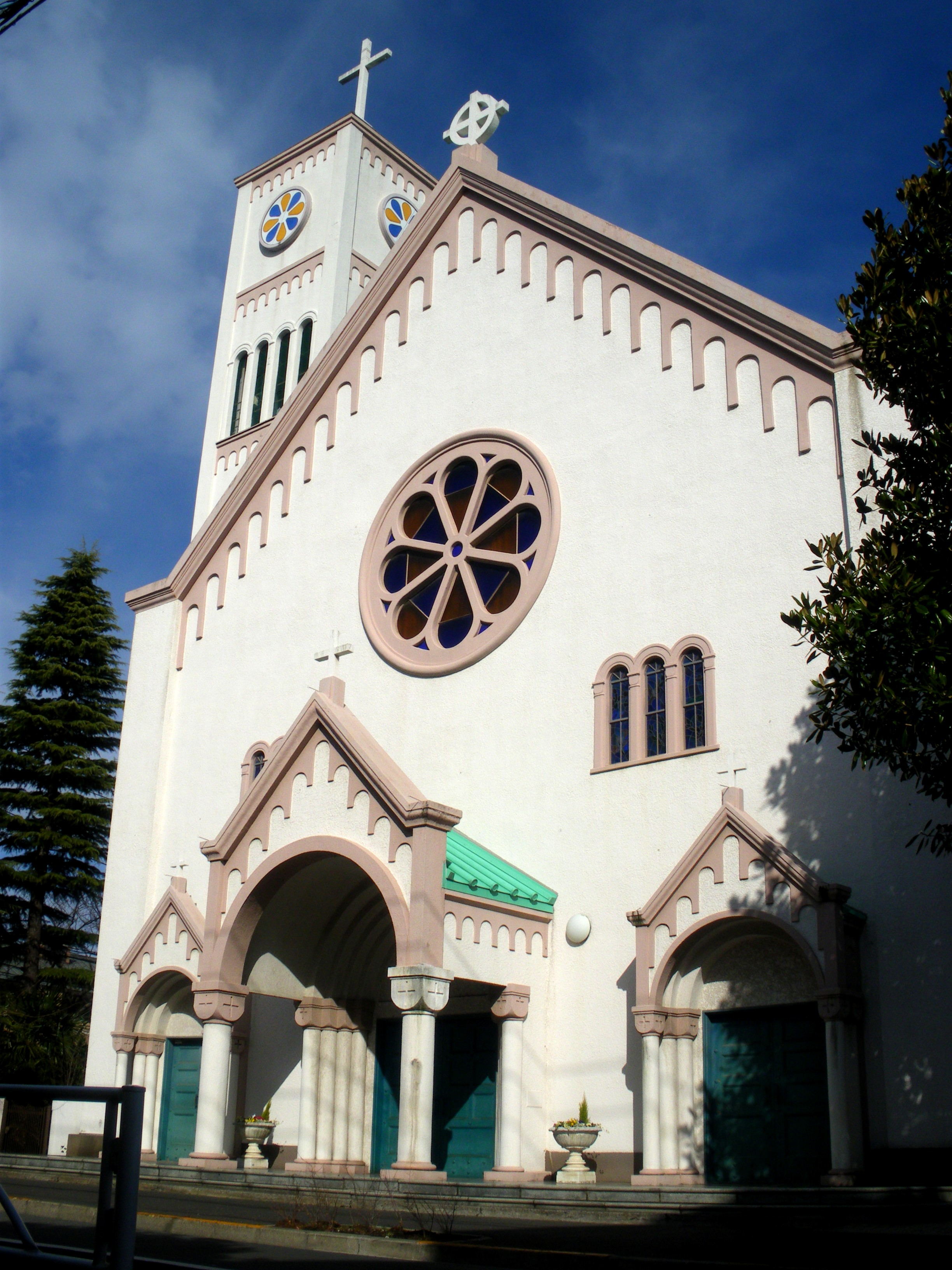 A photo of Catholic Himonya Church(also known as Salesio Church),Himonya Meguro-ku,Tokyo,Japan.